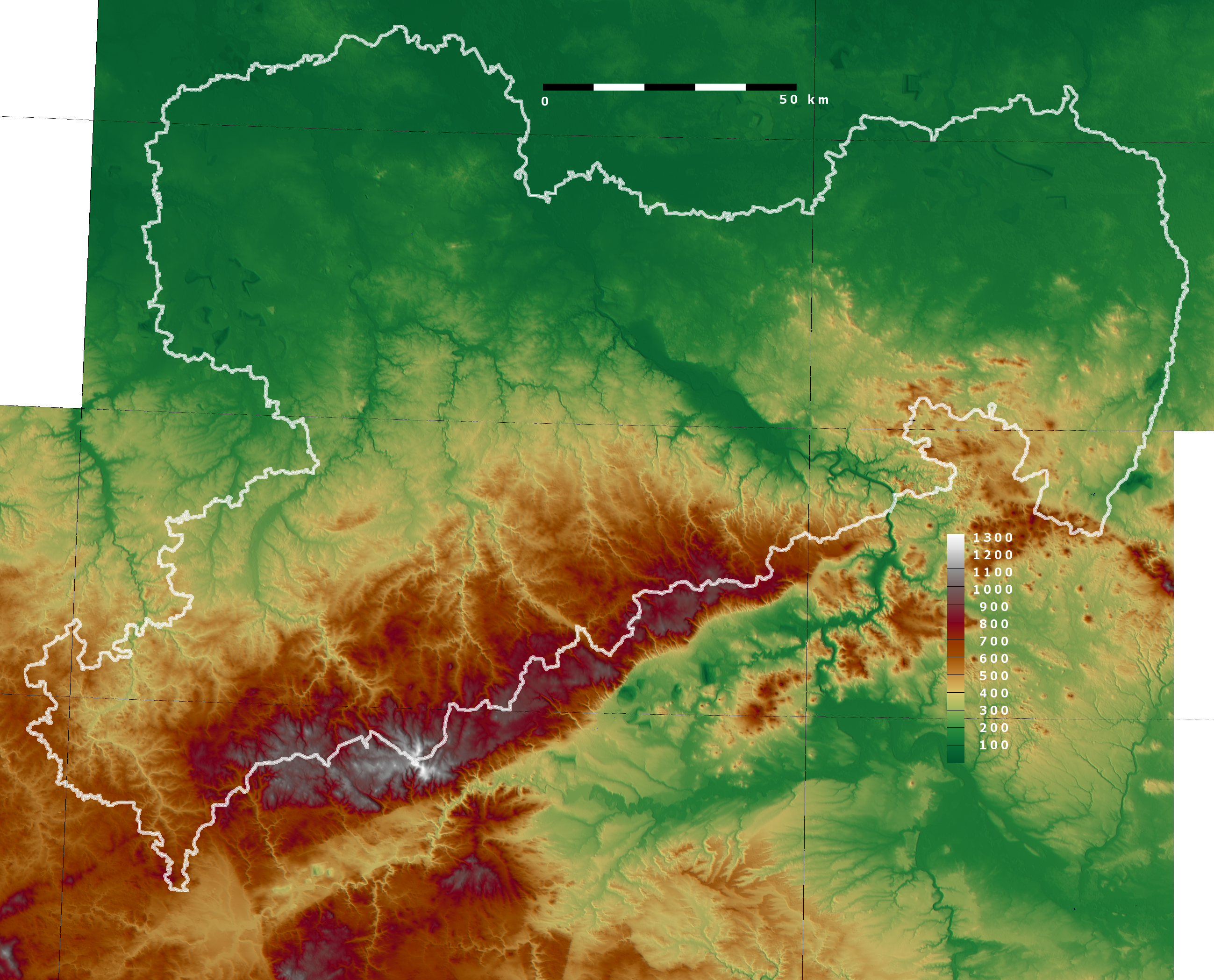 Map created with 3DEM from SRTM ( Administrative boundaries from OpenStreetMap.